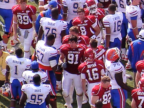 Jake Bequette, #91 shakes hands with Florida players after a football game at Razorback Stadium This file has been extracted from another file: End of game handshake, UF at Arkansas.jpg